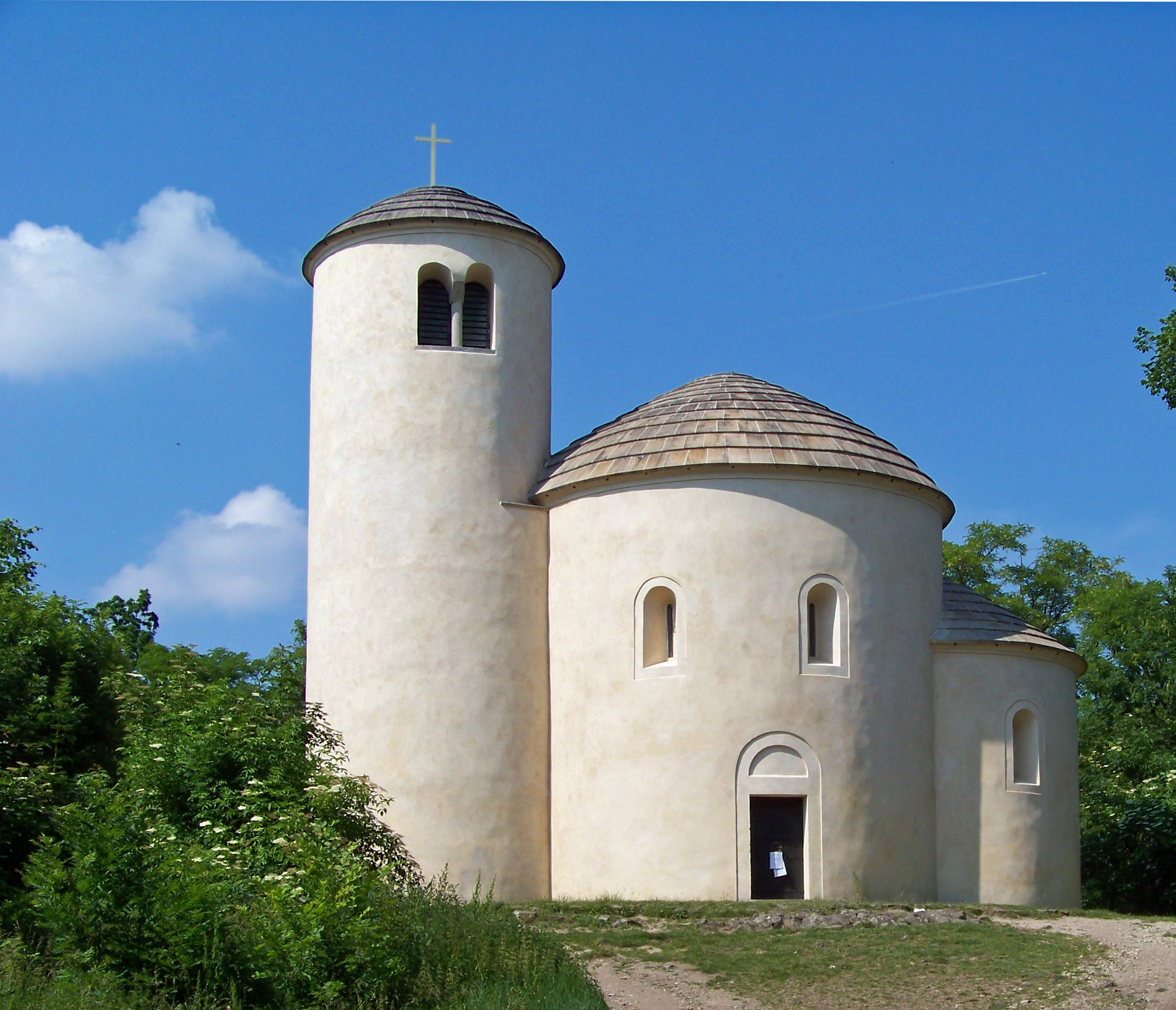 Mnetěš, Litoměřice District, Ústí nad Labem Region, the Czech Republic. Říp Mountain, Saint George Rotunda.